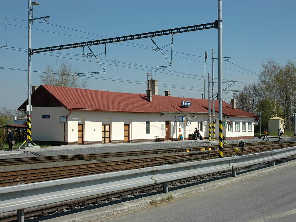 the building of Štítina railway station